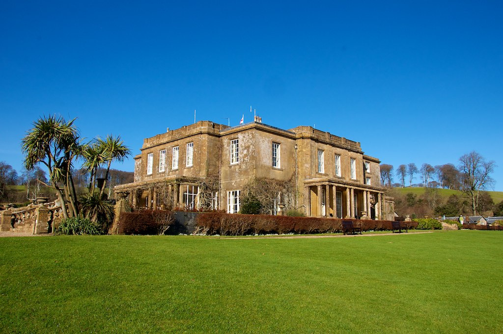 Cricket St Thomas House and Hotel Cricket St Thomas, Somerset